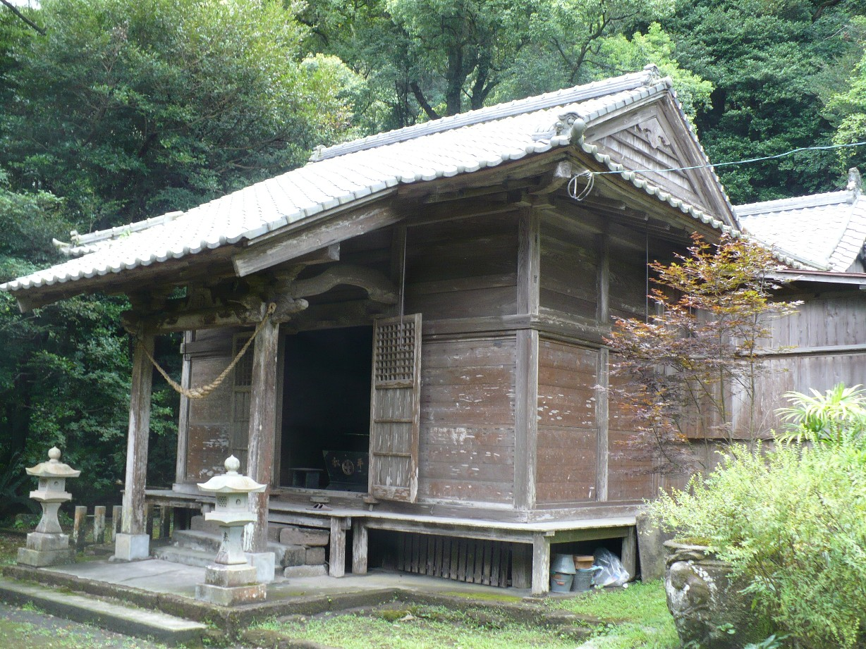 Front shrine of Hiramatsu shrine, Kagoshima, Kagoshim, Japan. The site is ruin of Shingakuji temple.